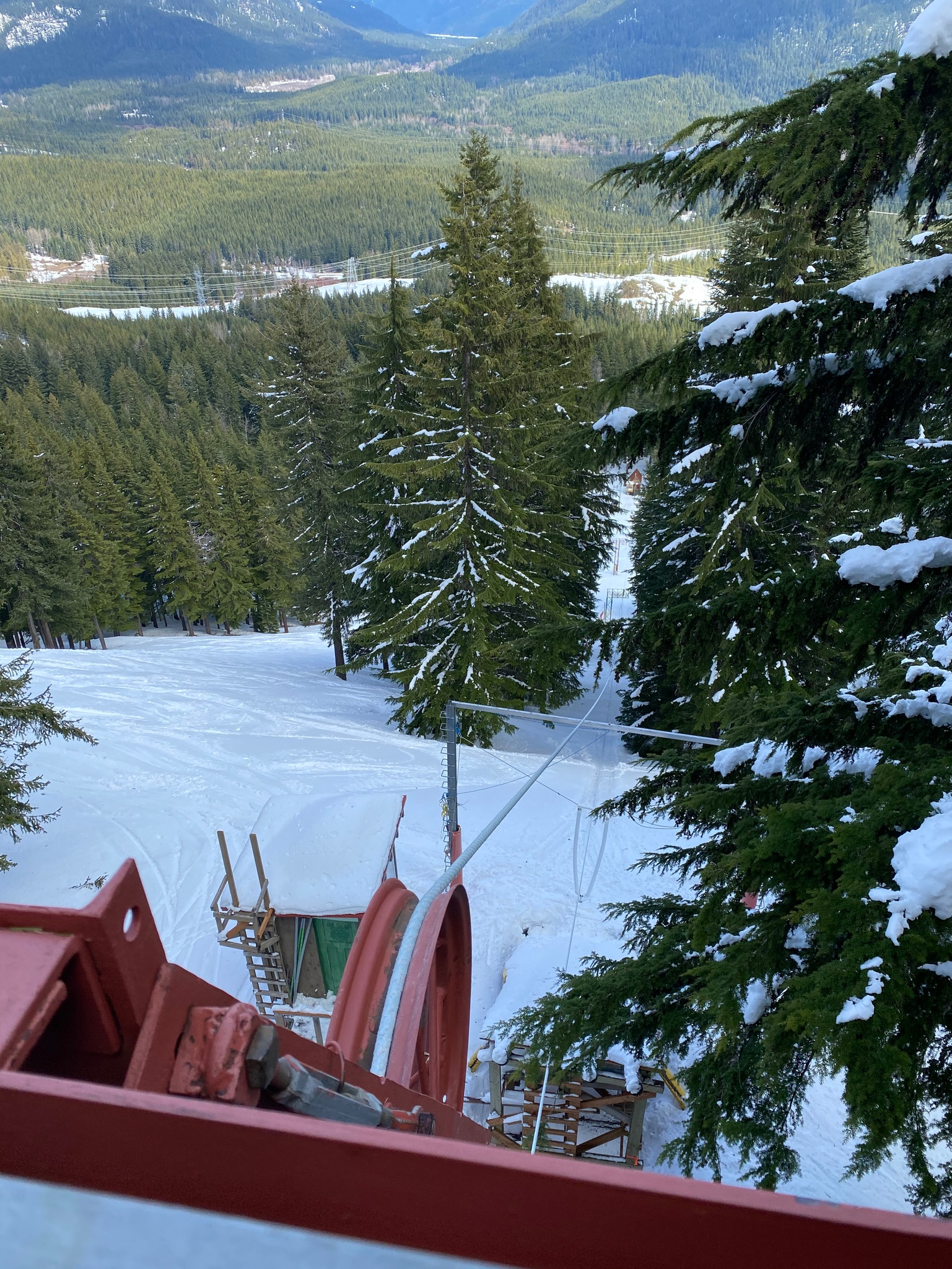 The top of the Lane (at left). The top ski hut and ramp is immediately below and the bottom tow hut (with the big motors that turn the rope) are way down the hill.